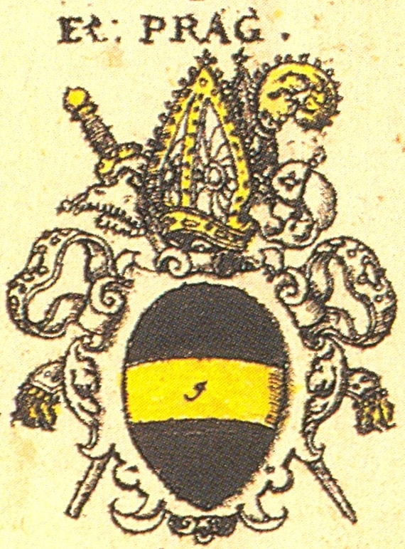 Coat of arms of Prague archdiocese from Siebmachers Wappenbuch